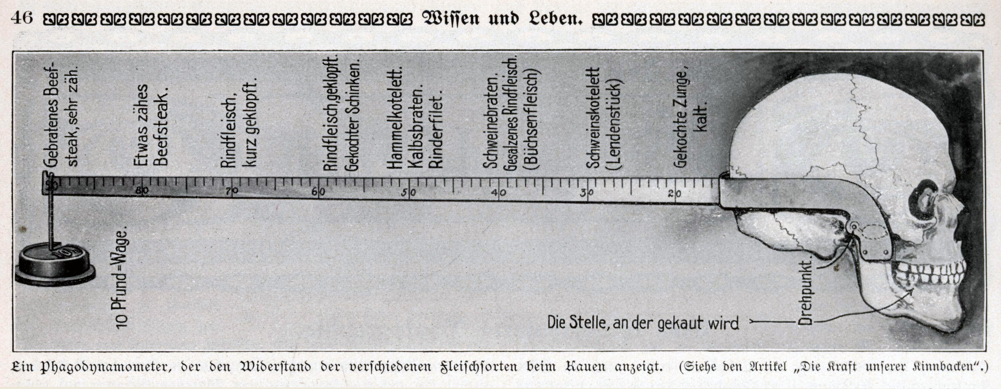 Illustration from "Wissen und Leben" (Supplement to "Reclams Universum" Issue 25, Vol. 28, 1912, p. 46. Scanned by Bibhai.